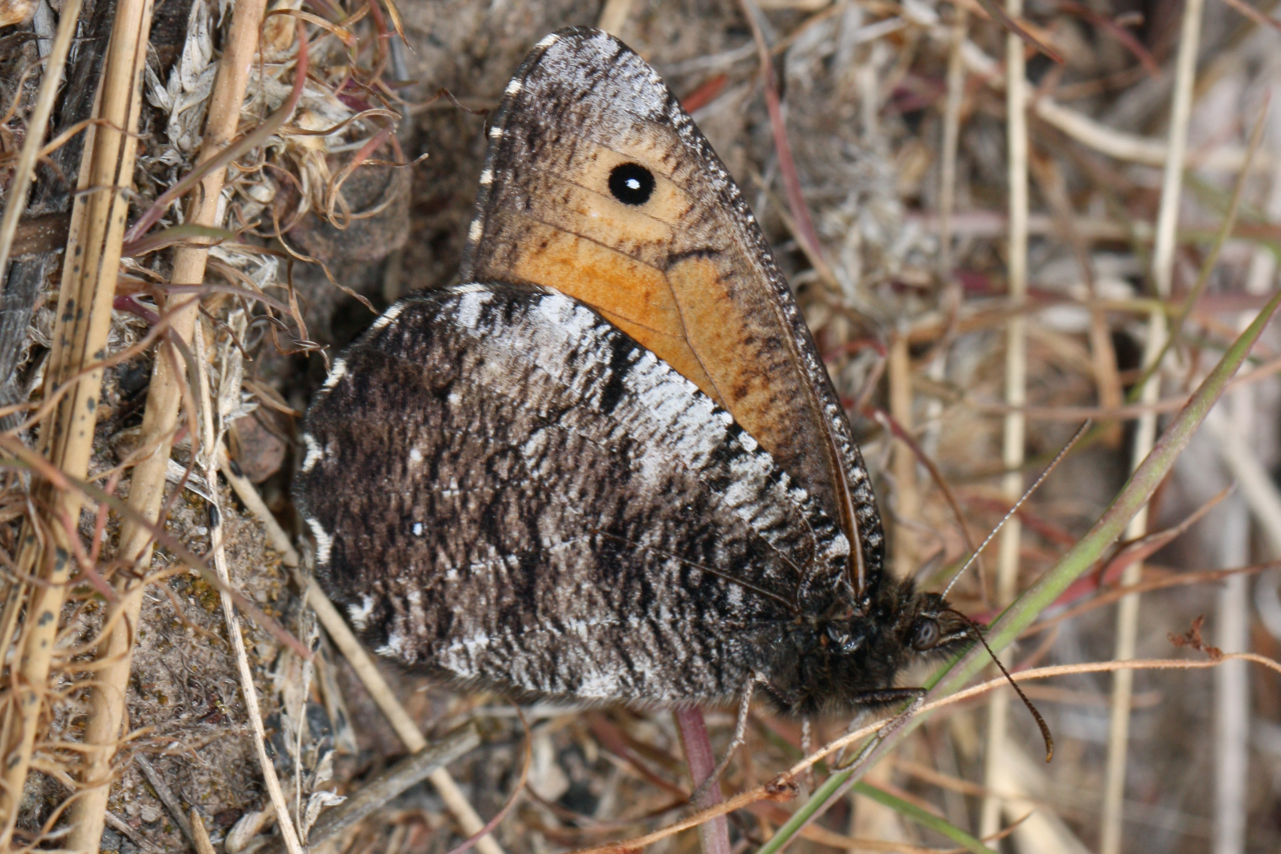 Great Arctic; wingspan is 5.1 to 6.3 cm Viewpoint location: Tronsen Ridge Trail #1204, Tronsen Ridge Viewpoint elevation: 1274 meter (4180 ft) Location source: Garmin GPSmap 60CSx Location Datum: WGS84